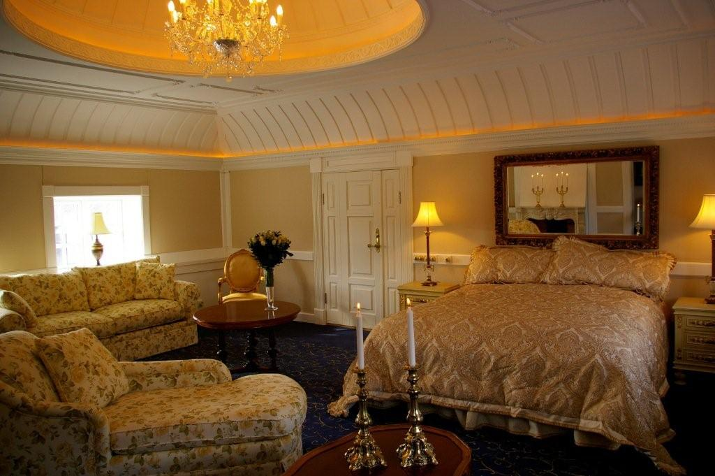 suite at skrøbelev gods